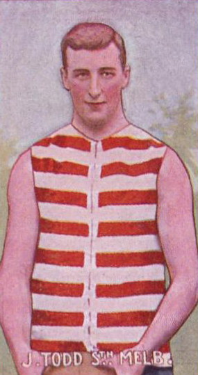 Cigarette card of Jack Todd from the Sniders & Abrahams 1906 series